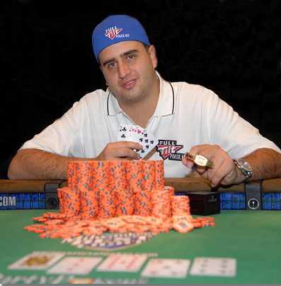 Robert Mizrachi after he won $10,000 World Championship Pot Limit Omaha at the 2007 World Series of Poker.